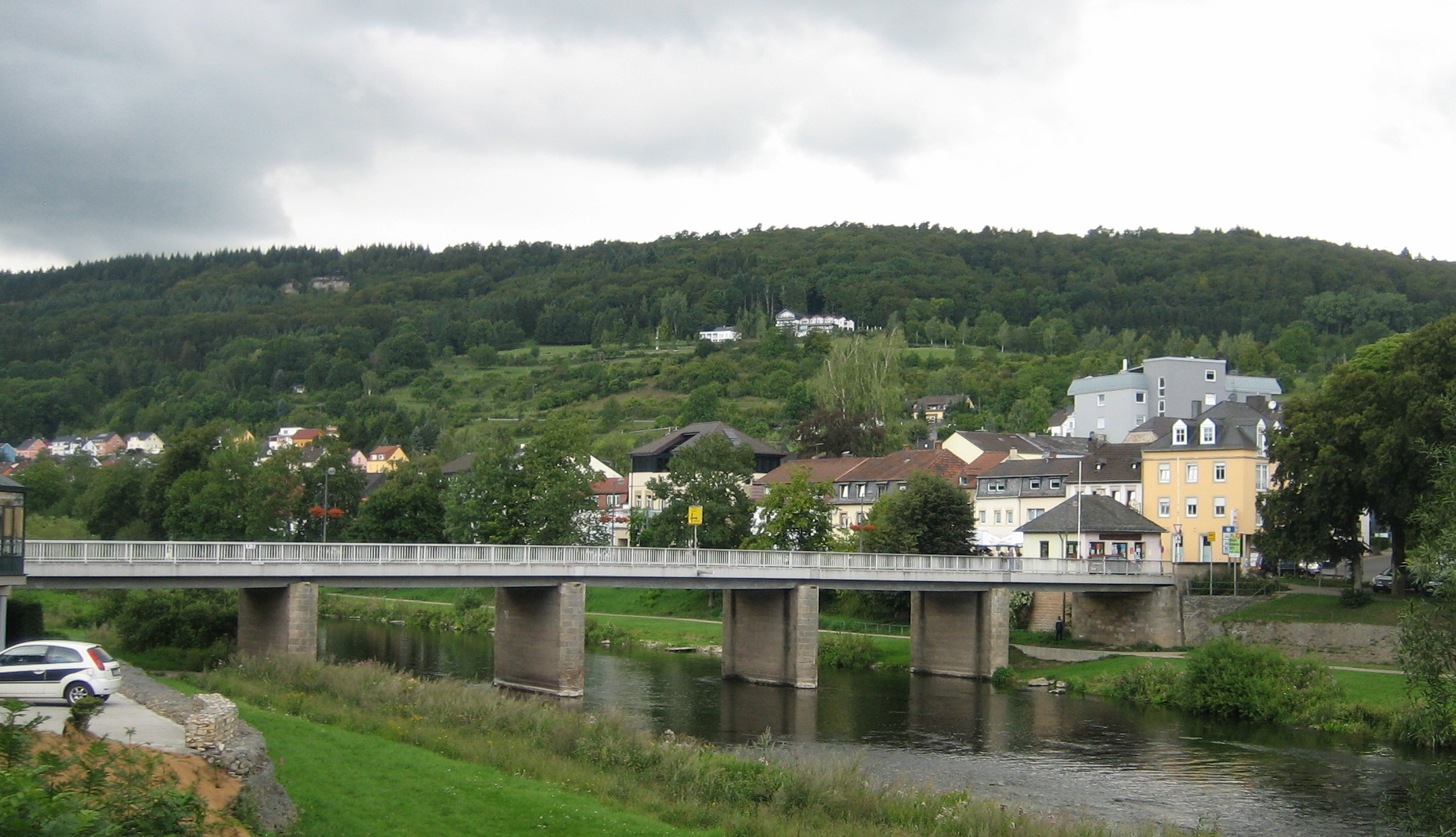 Bridge across the river Sauer/Sûre between Bollendorf (D) and Bollendorf-Pont (L) - upstream view.